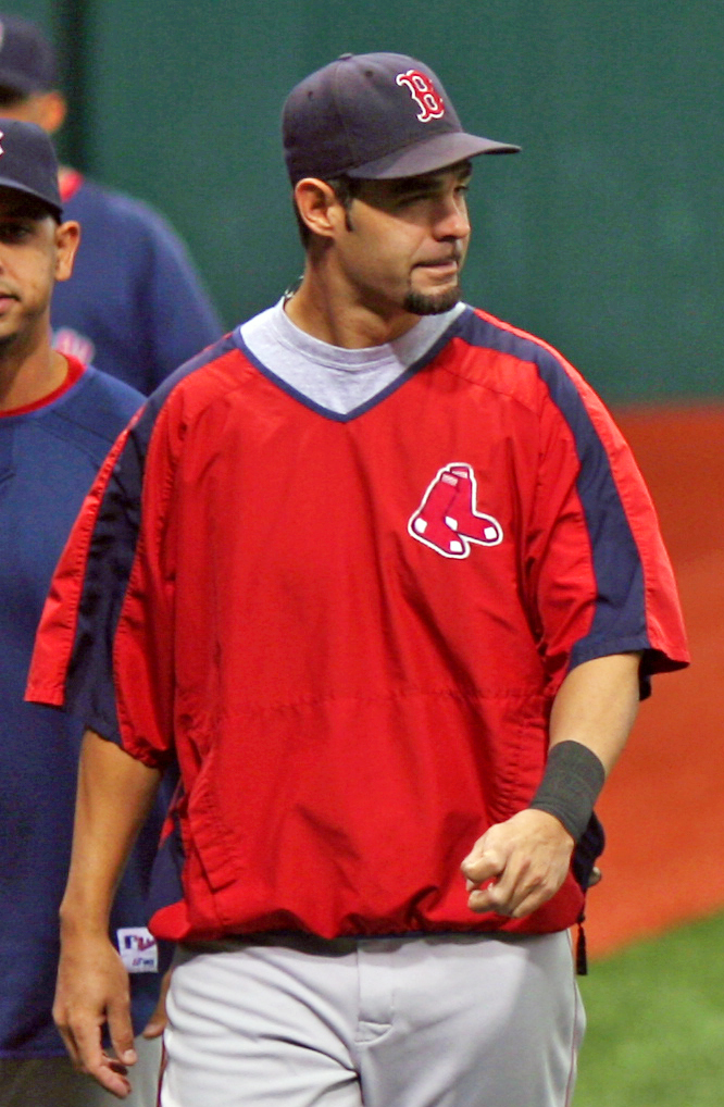 Photograph taken by Googie Man. 13:14, 25 October 2007 . . Googie man . . 666×1018 (611 KB)